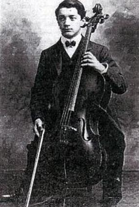 Roger Marie Bricoux